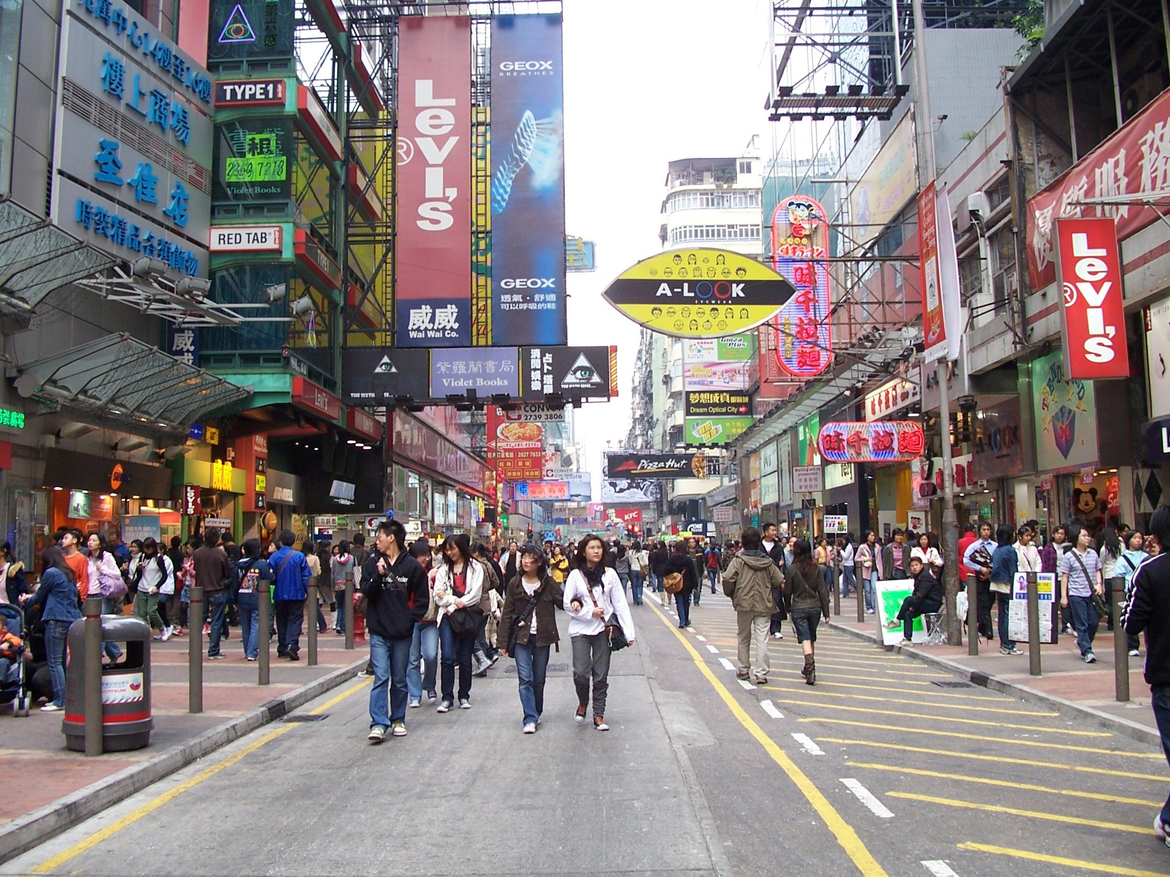 Sai Yeung Choi Street South in Mong Kok, Hong Kong. Taken on December 27.